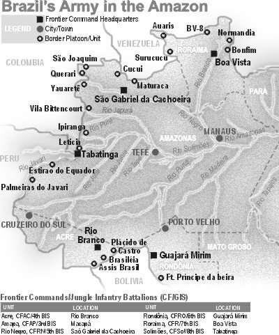 Author: William Mendel of the Foreign Military Studies Office, Fort Leavenworth, Kansas (1999). Map published at his essay called "The Brazilian Amazon: Controlling the Hydra".